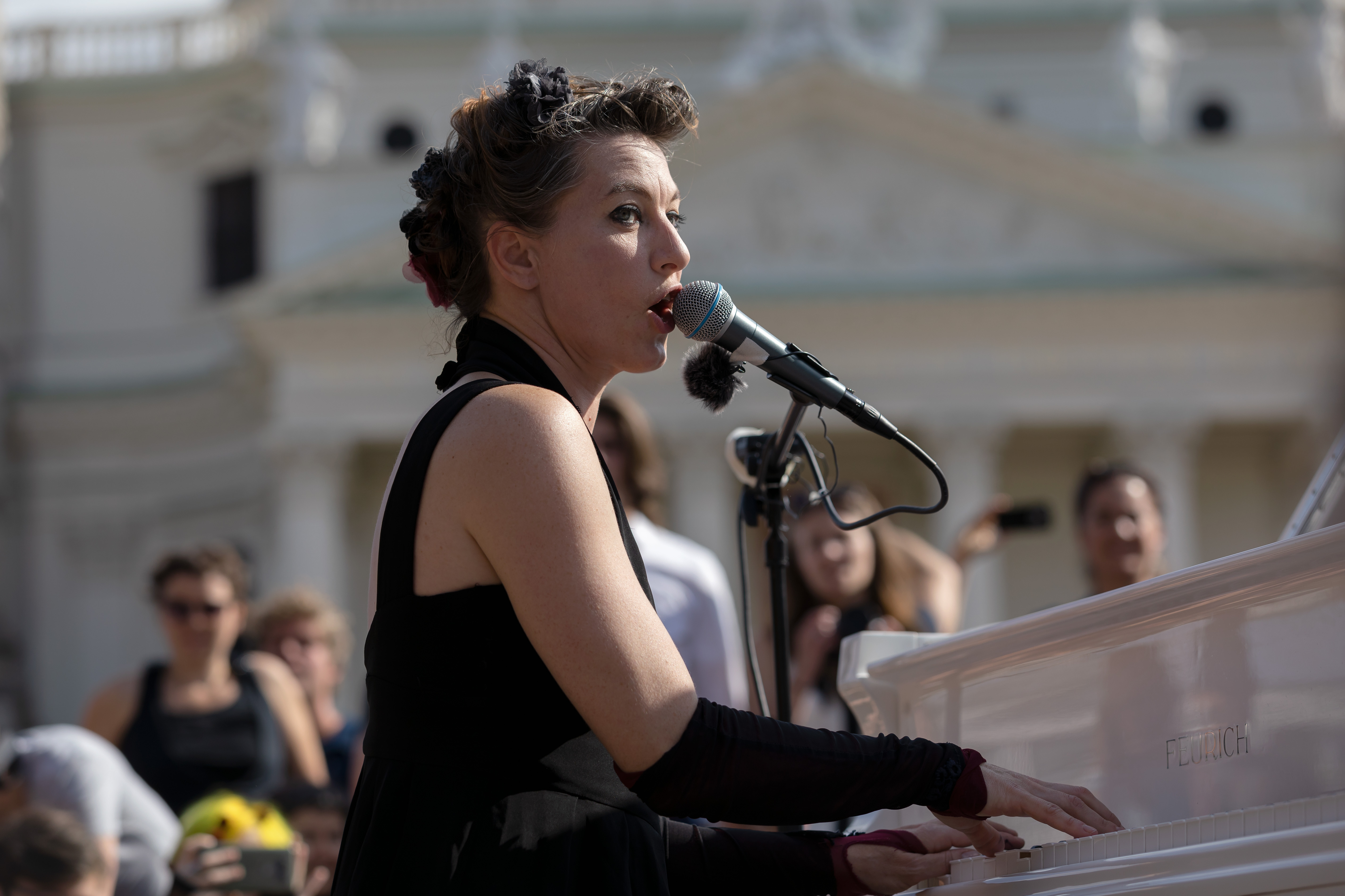 Amanda Palmer, charity concert for Open Piano for Refugees at Karlsplatz in Vienna, Austria.